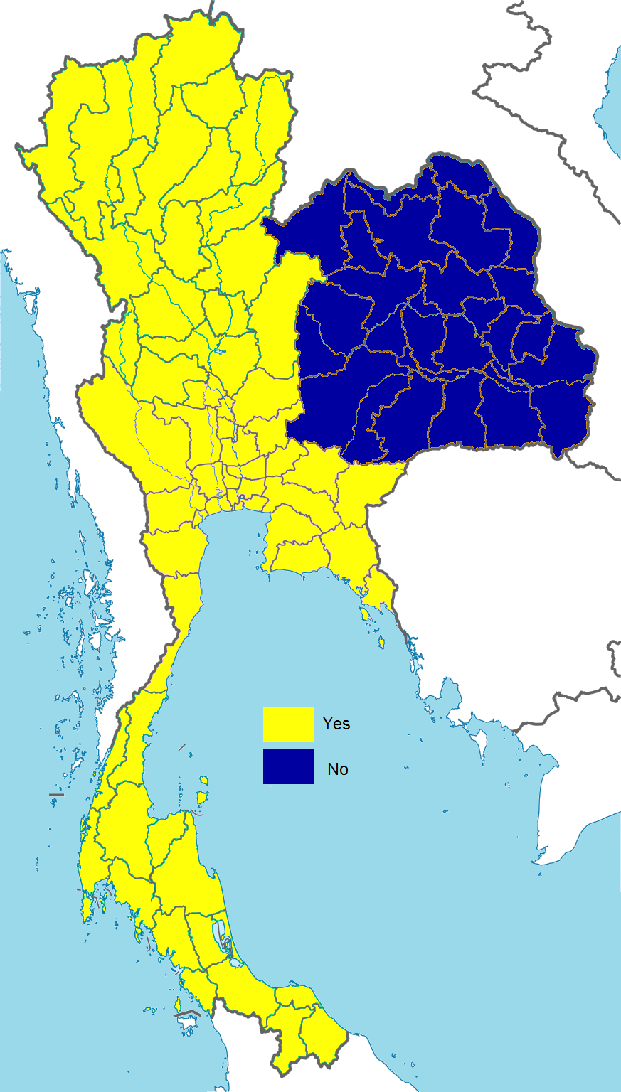 Thai constitutional referendum, 2016 result by four regions